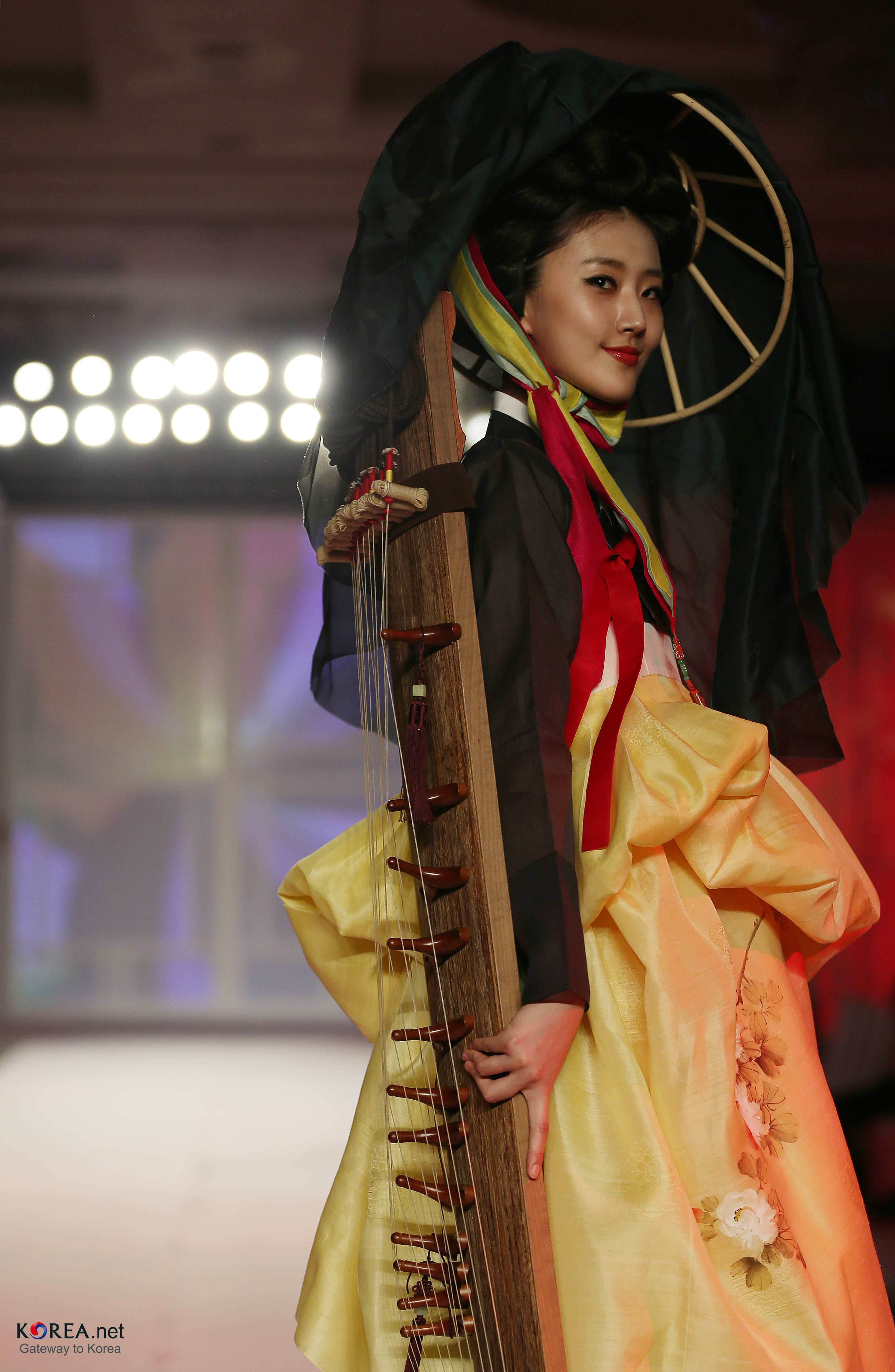 Hanbok-Ao Dai Fashion Show, Hanoi, Vietnam